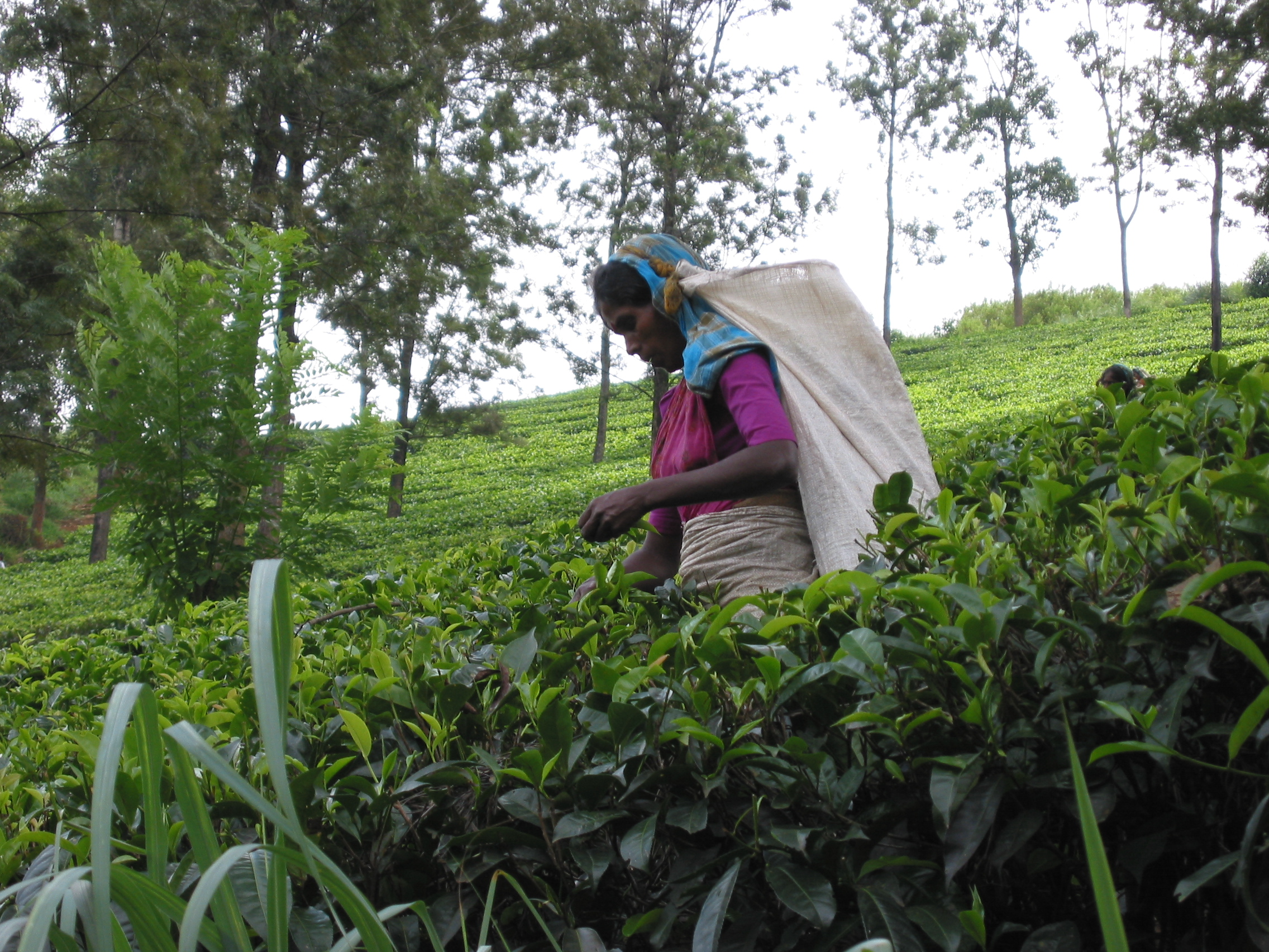 Tea picker of Sri Lanka